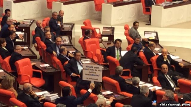 A CHP member of Parliament protesting government ministers accused of corruption voting against a motion to refer them to the courts